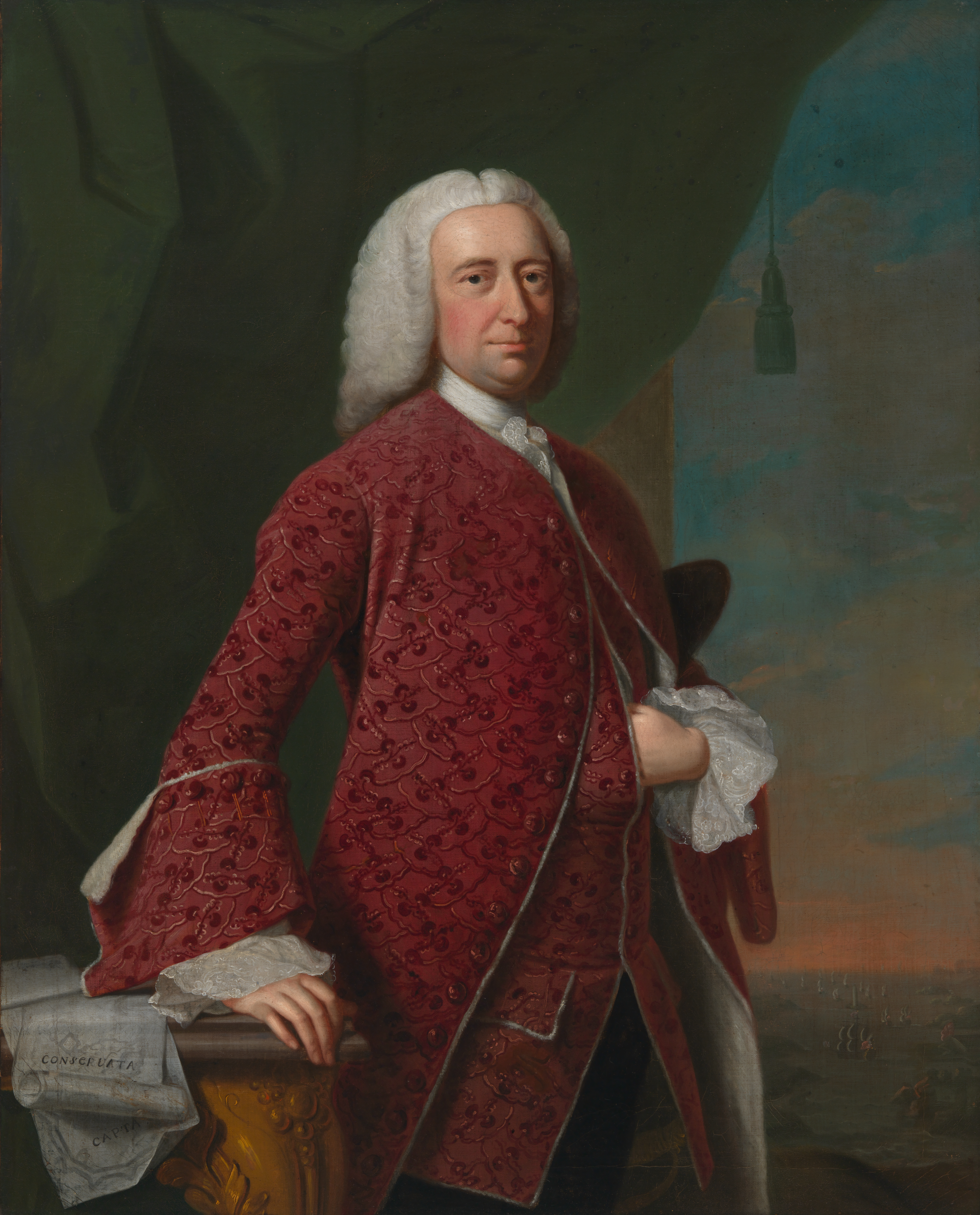 Appointed colonial governor of Massachusetts in 1741, William Shirley spent much of the next fifteen years in military and diplomatic engagements with the French. After war broke out between England and France in 1744, Shirley won an important victory by orchestrating a successful attack on the French stronghold at Louisbourg, Nova Scotia. This portrait by distinguished English painter Thomas Hudson-with a background that recalls this famous naval conquest-was painted in London while Shirley was participating in boundary negotiations with the French following the war's end in 1748. In 1755, at the outset of the French and Indian War, King George II promoted Shirley to commander of British forces in North America. He lost this position and his governorship a year later, however, after failing to halt French advances.